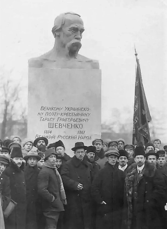 The ceremonial opening of the monument by the Latvian sculptor Janis Tilbergs to Taras Shevchenko in Petrograd (Saint Petersburg) on December 1, 1918. The inscription says: "To the great Ukrainian poet-pesant T. G. Shevchenko (1814 - 1861) from the great Russian nation." The plaster monument existed for only eight years due to the deterioration of the material in the open air. It was planned to be replaced by a bronze version which never happened.